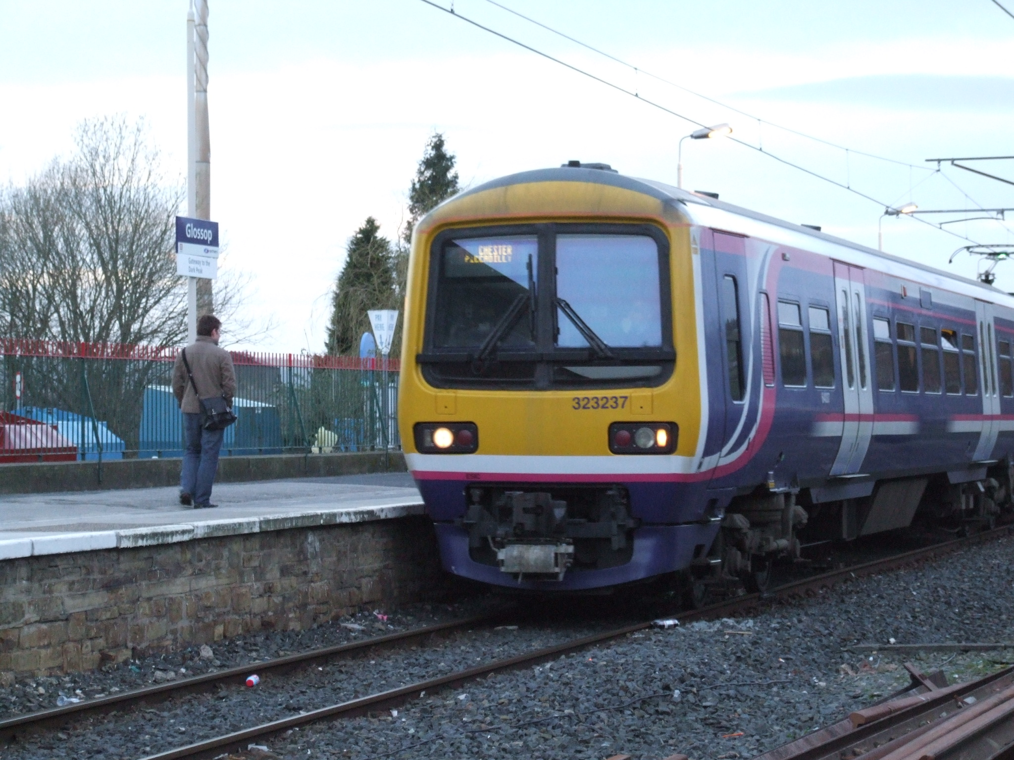 323237 at Glossop railway station.